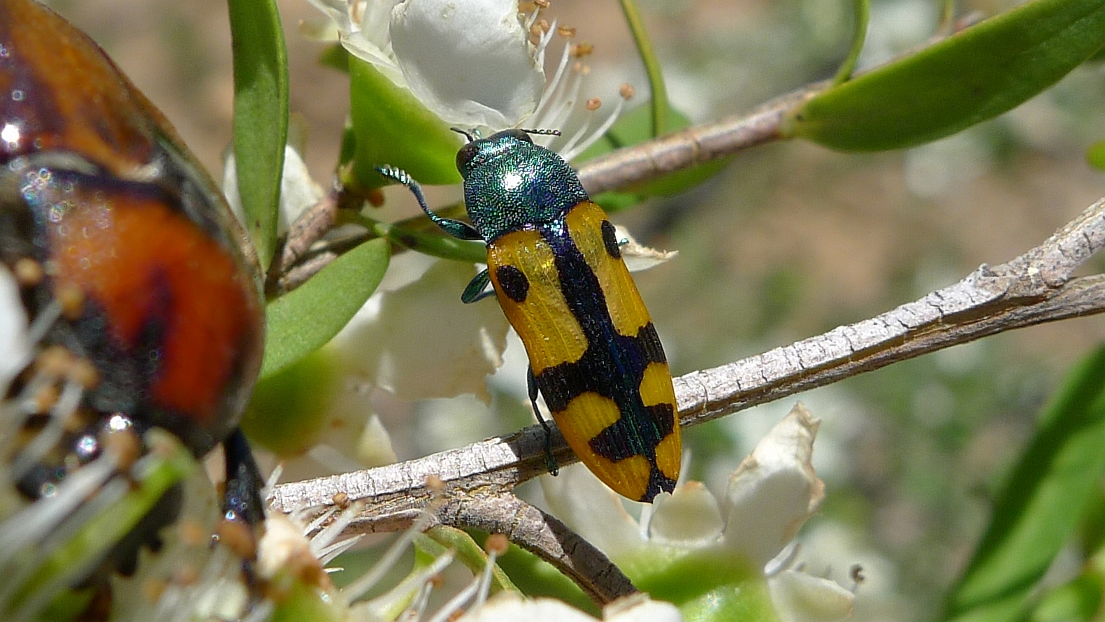 Jewel Beetle, Castiarina scalaris, family Buprestidae, on Leptospermum. Wollemi-Yengo, NSW Australia, December 2013. Thanks to Allen Sundholm for confirming the ID.